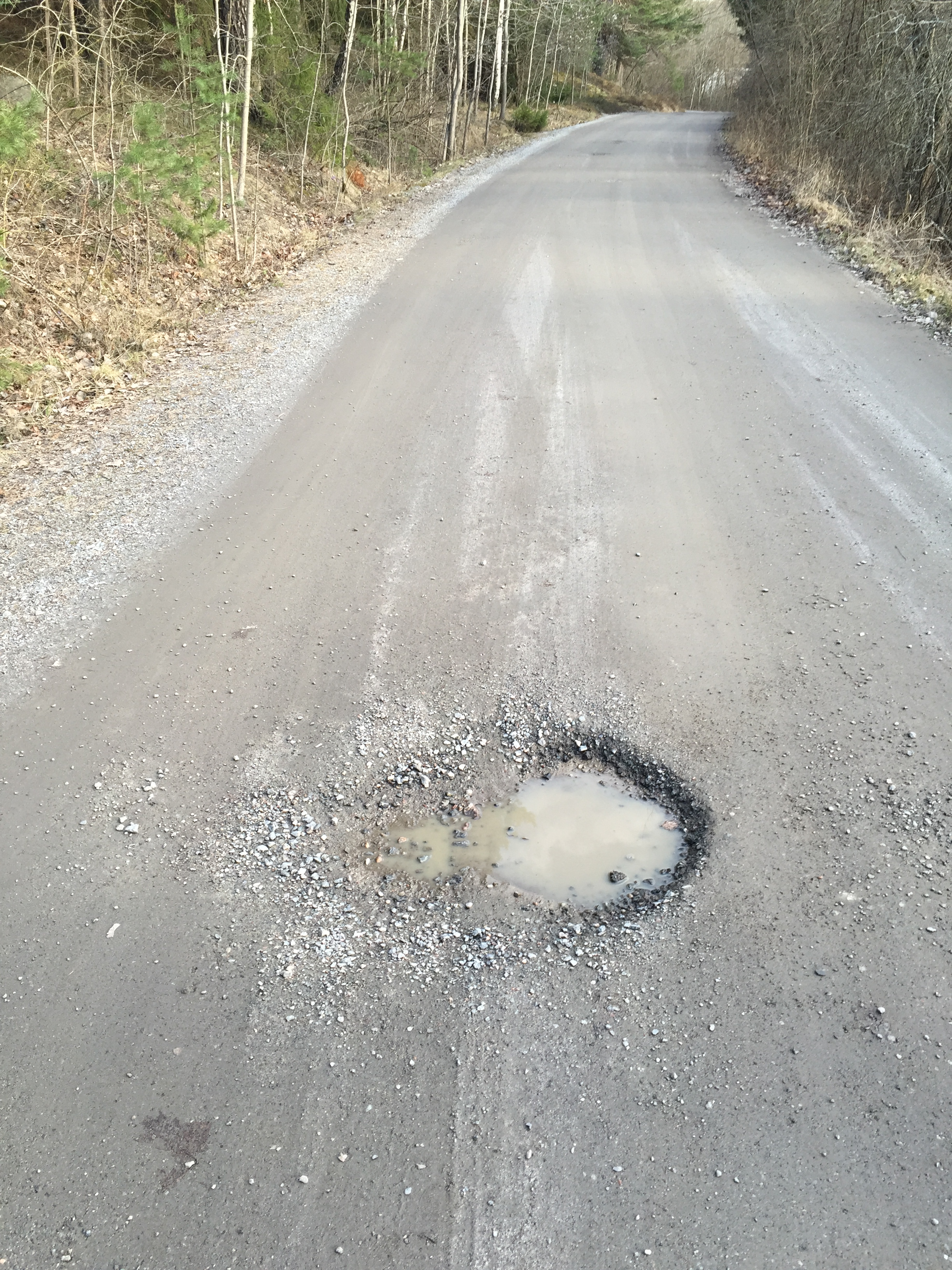 A pothole in a dirt road in Sweden, 2016